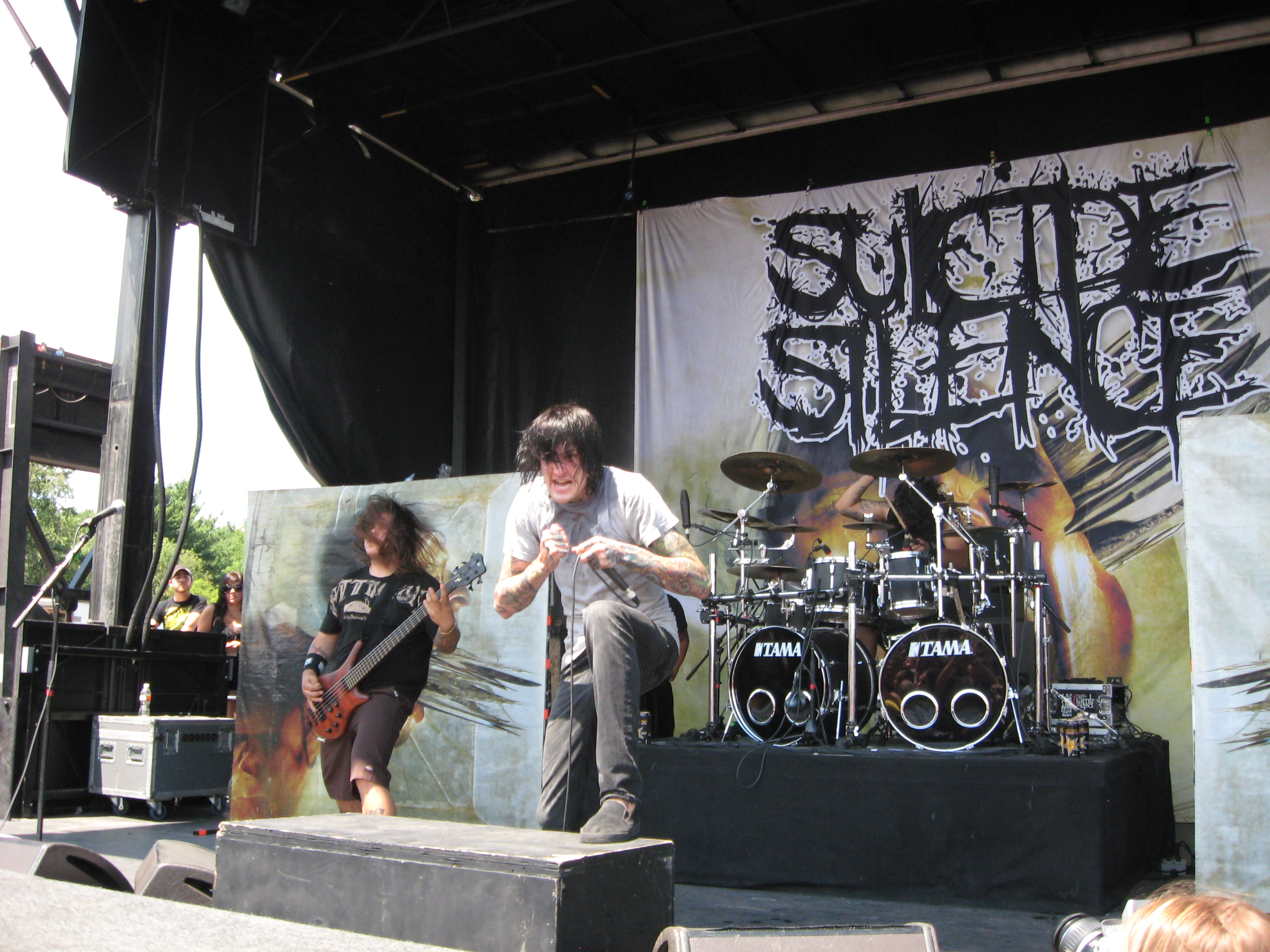 Suicide Silence Live @ Mayhem Festival in Pittsburgh, PA.